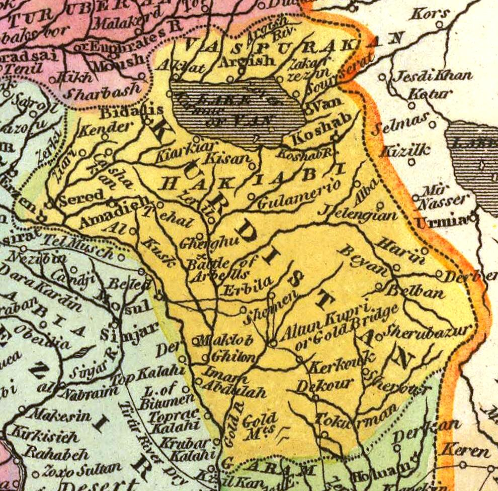 A new map of Turkey in Asia. London, Published November 9th, 1811, by Willm. Darton Junr., 58 Holborn Hill.